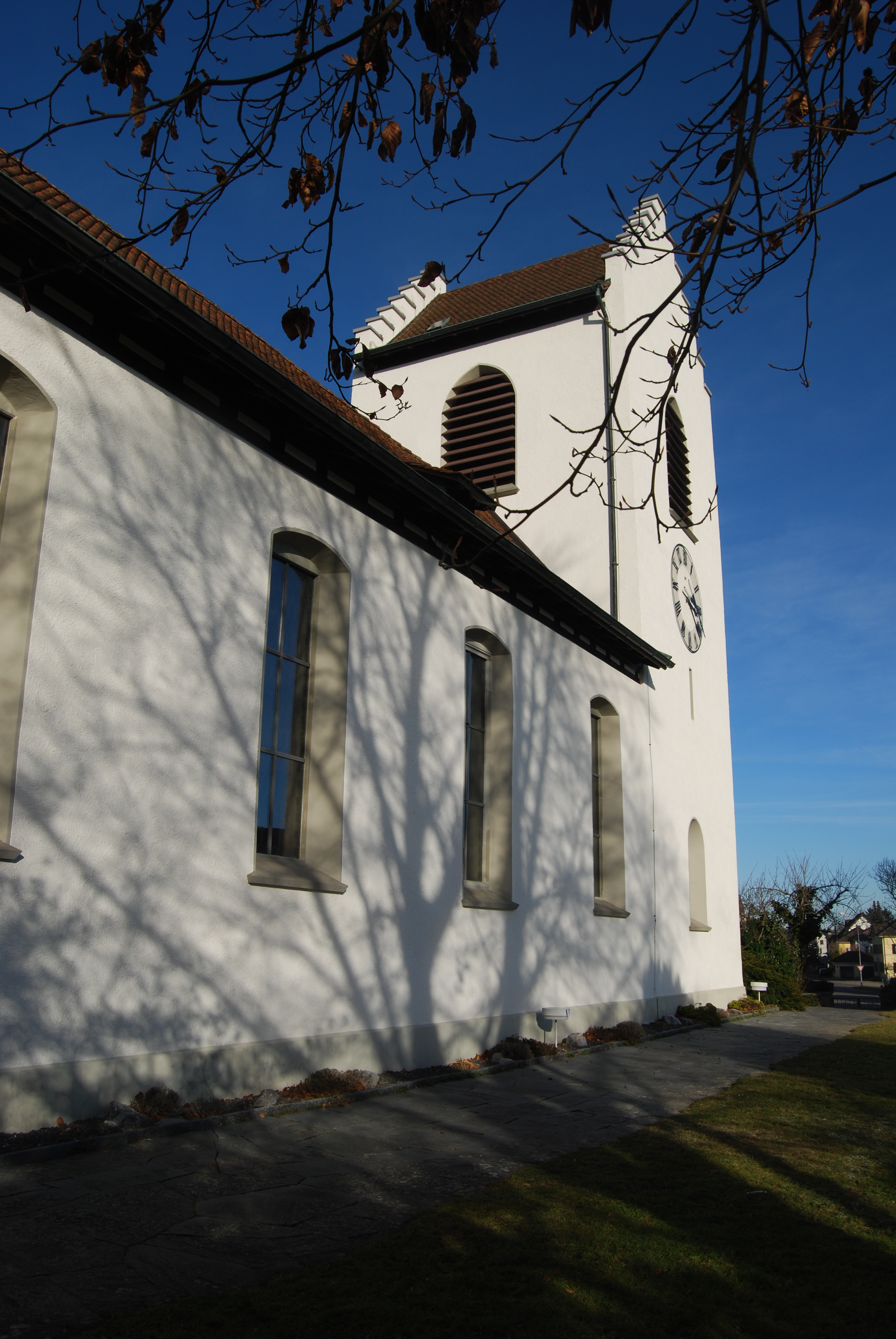 Protestant church of Berg, canton of Thurgovia, Switzerland